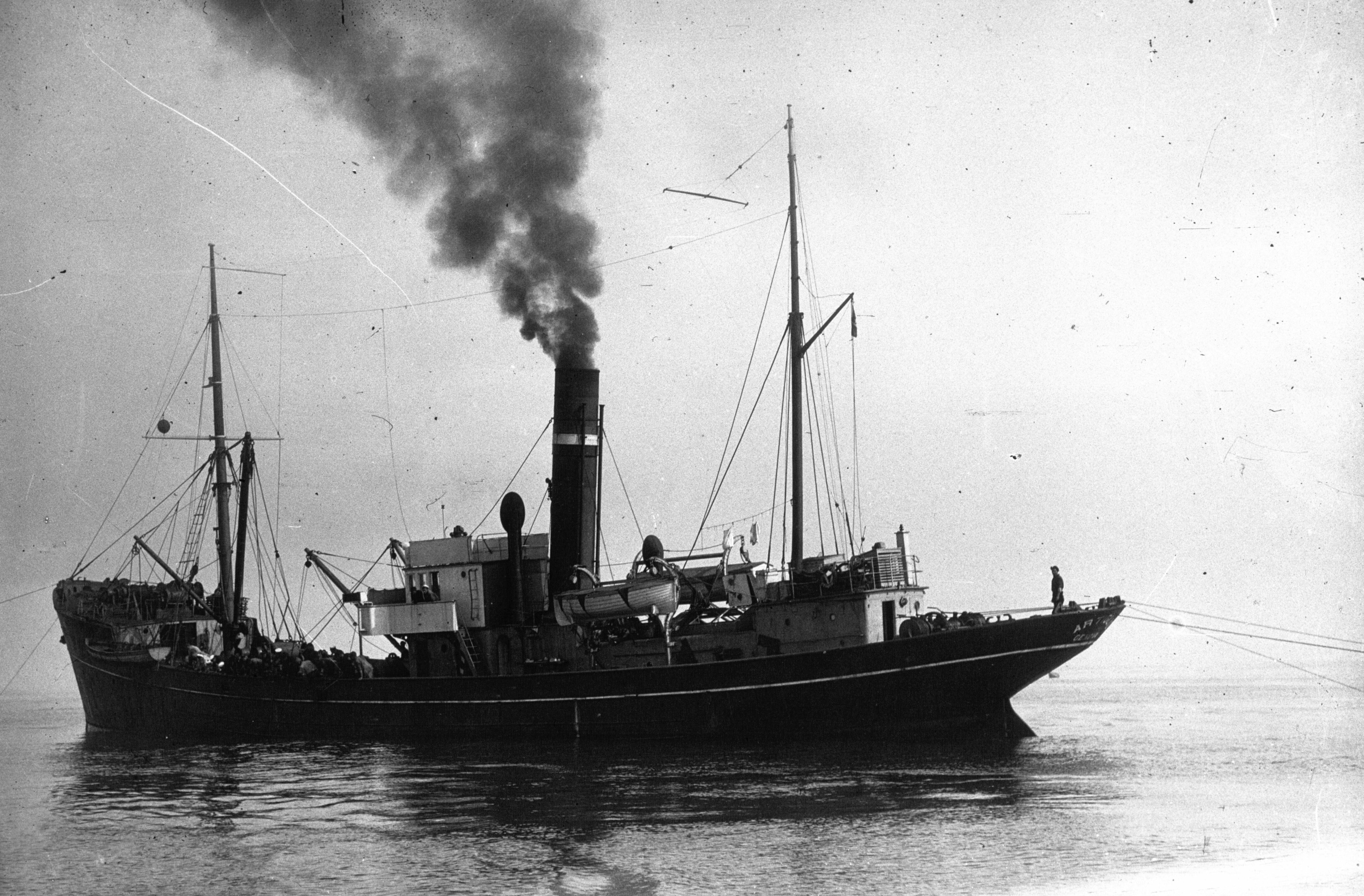 The ship Artiglio in Cherbourg